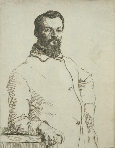 The portrait of French painter Alfred de Curzon (1820—1895)